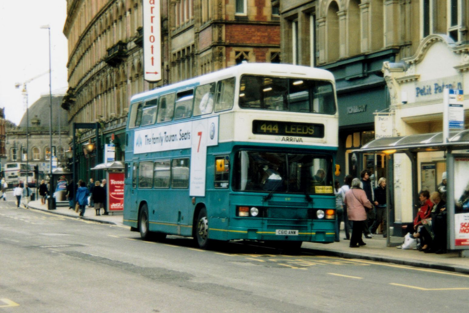 Arriva Yorkshire 610 (C610 ANW), a Leyland Olympian/ECW, in Leeds on service 444, in April 2006.